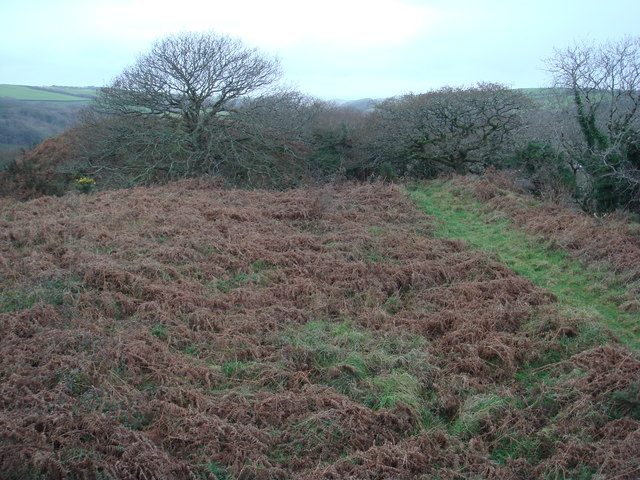 Penstowe Castle near Kilkhampton View looking west over the inner bailey towards the motte that can be seen as the mound behind the tree in the near background.